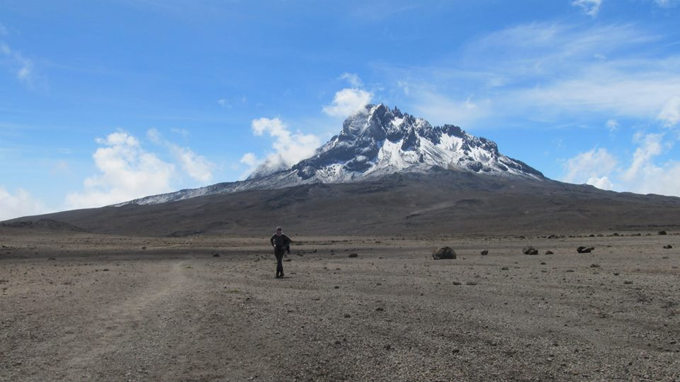 Mawenzi from Kibo Sattle